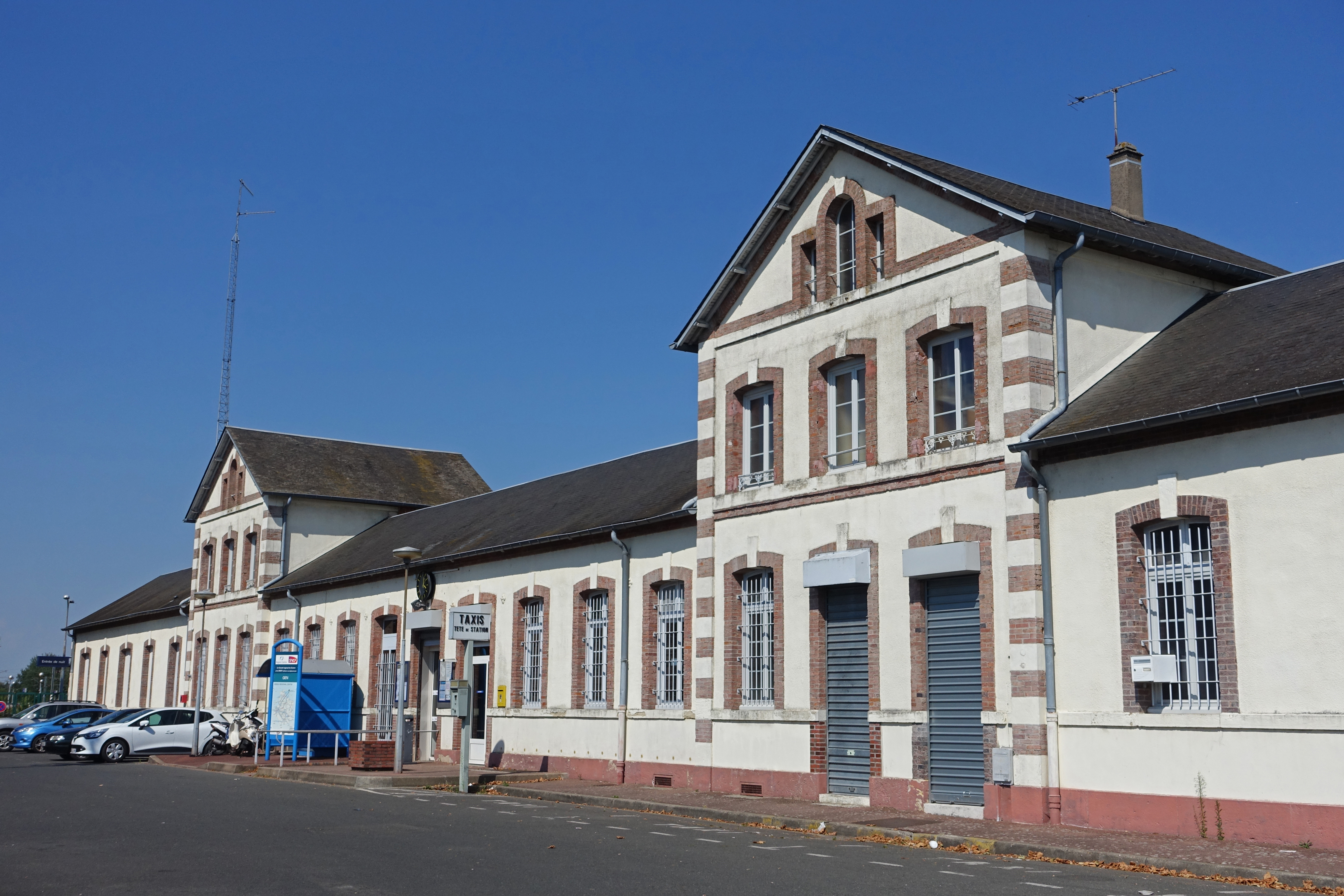 Main building of Gien station, France